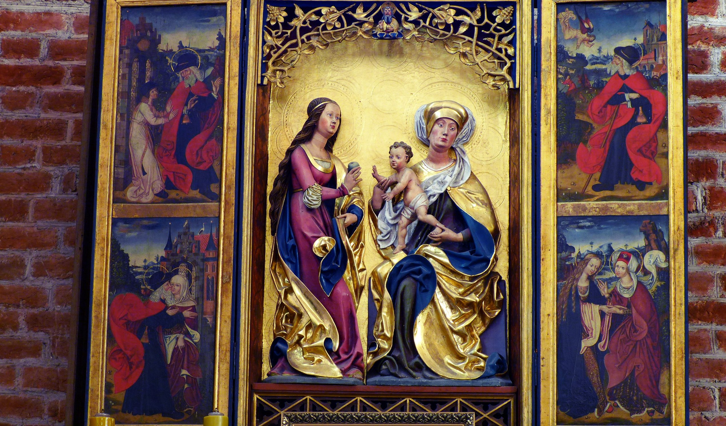 On pictures: Saint Joachim, Meeting at the Golden Gate, The Annunciation to Joachim, The visitation. From about 1520 in basilica in Dobre Miasto, Poland